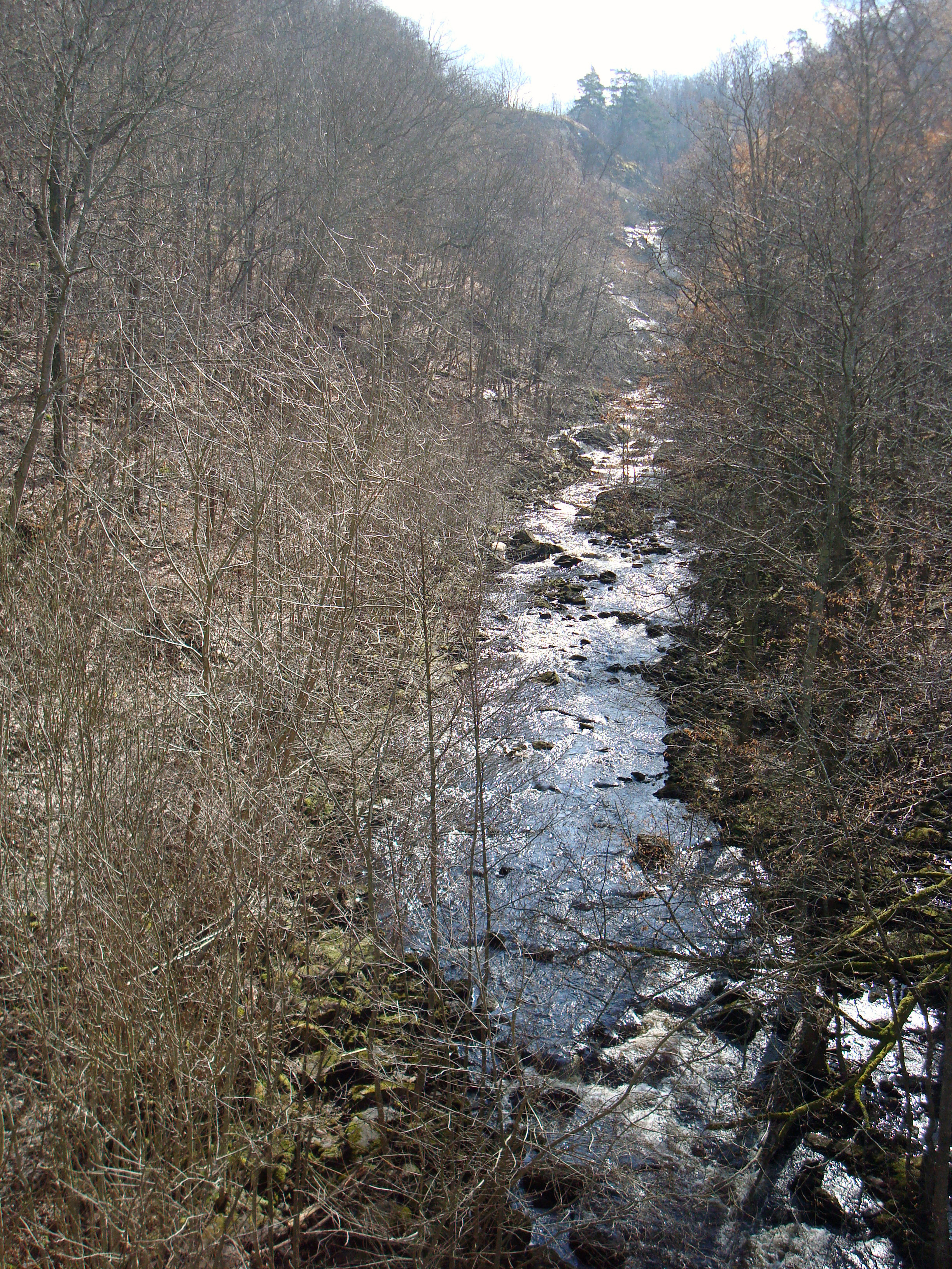 Huskvarnaån, a river in Huskvarna, Sweden